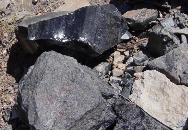 Obsidian, Pumice, and Rhyolite at the base of Panum Crater, Mono County, California